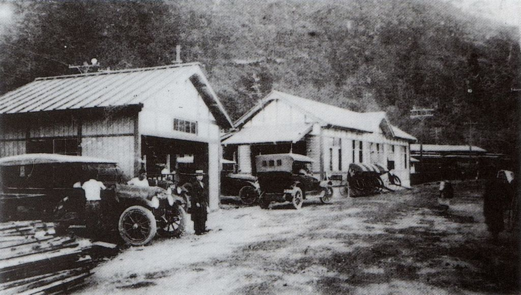 Odawara Electric Railways Yumoto Station immediately after opening